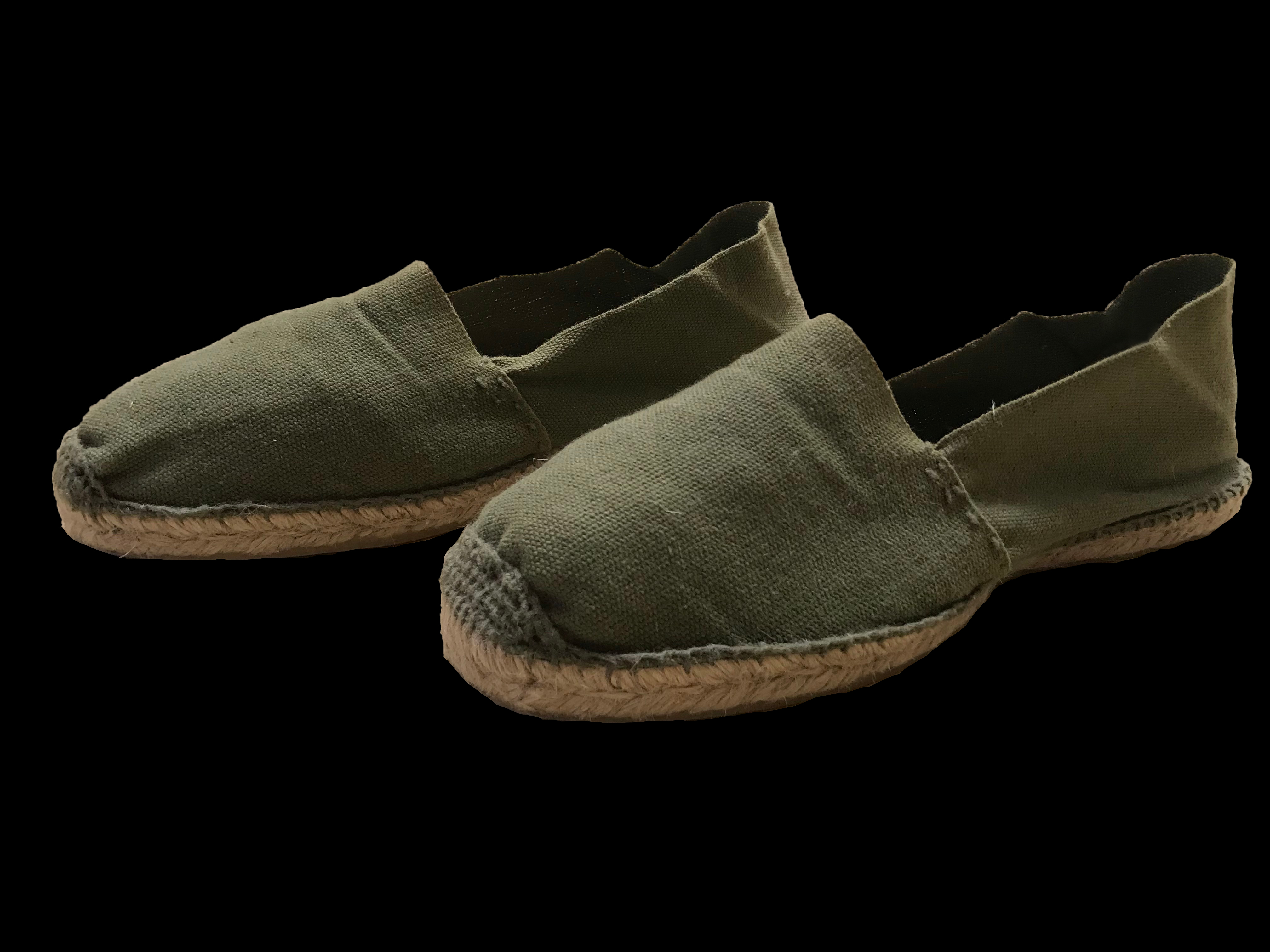 Olive colour Spanish "Alpargatas" or Espadrilles. This is a retouched picture, which means that it has been digitally altered from its original version. Modifications: Black background with Photoshop CS6..